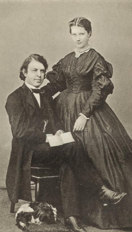 Joseph Joachim & Amalie Weiss.